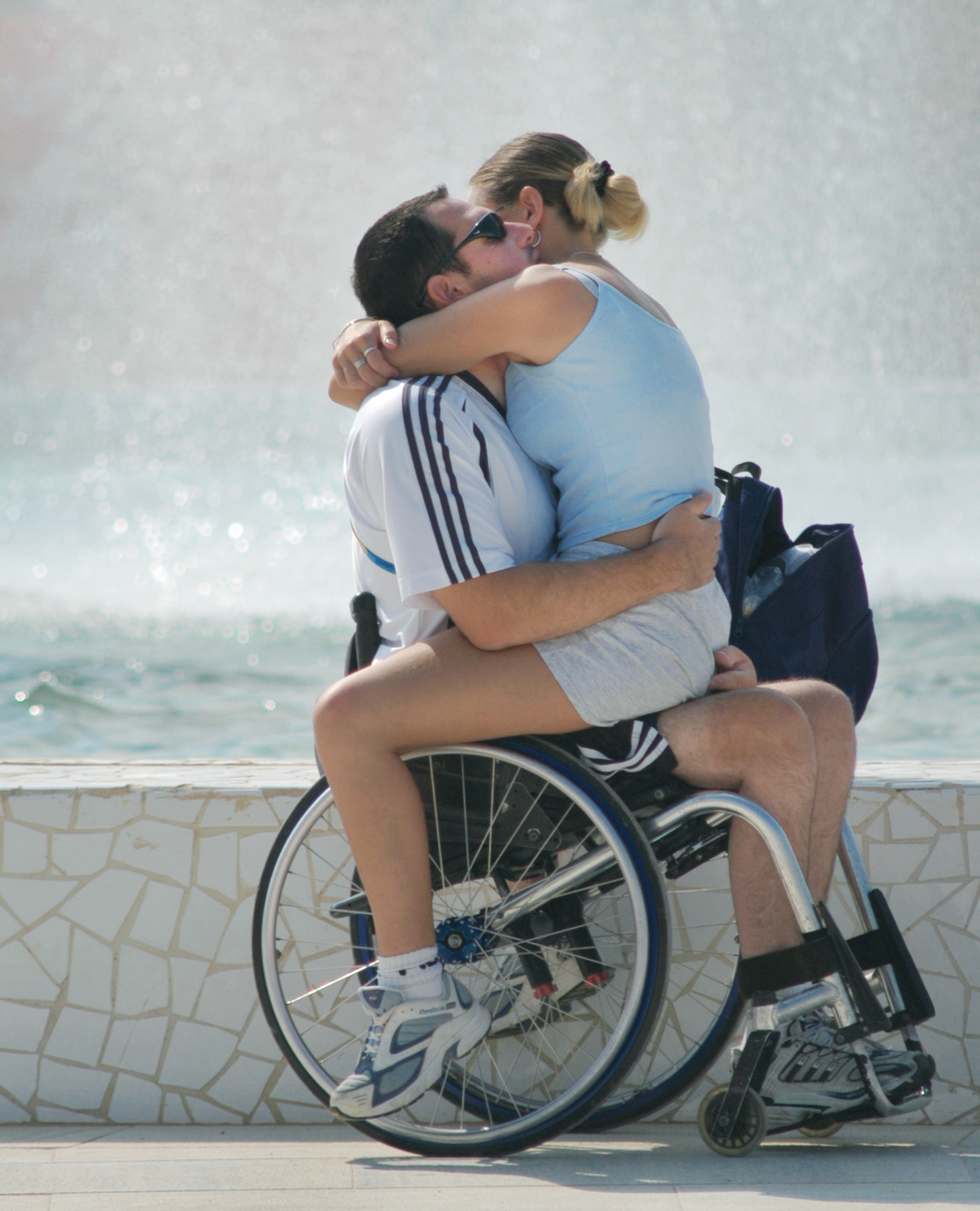 Love of paralympic sportsman.